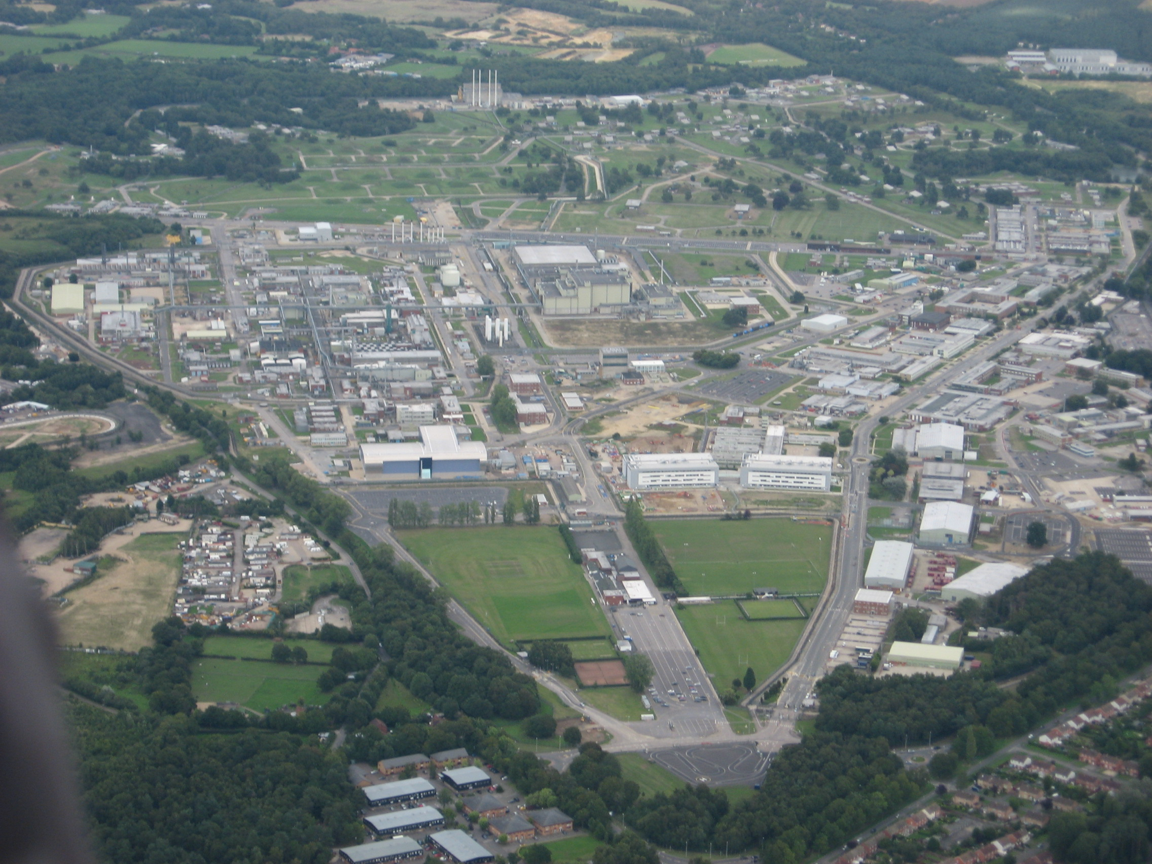 Atomic Weapons Establishment at Aldermaston. Despite all the later redevelopment, the alignment of the runways of the predecessor airfield are still discernable.